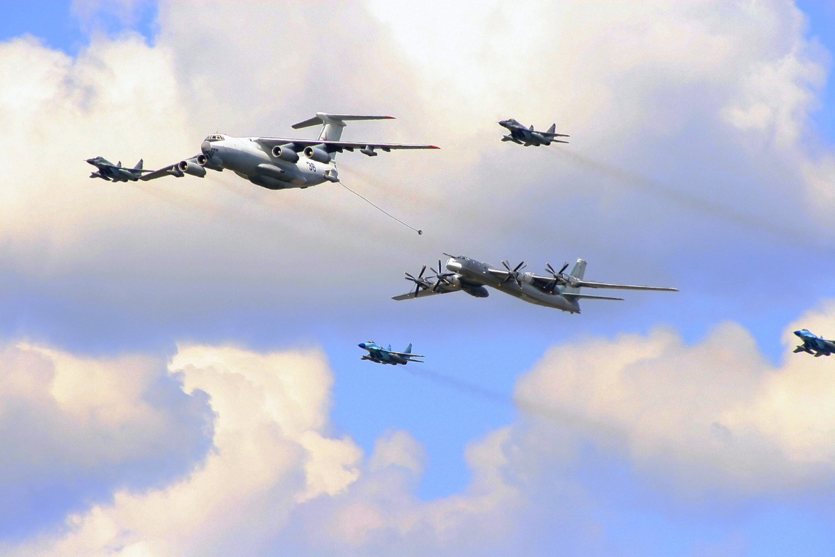 Il-78 and Tu-95 over Moscow on Victory Day Parade